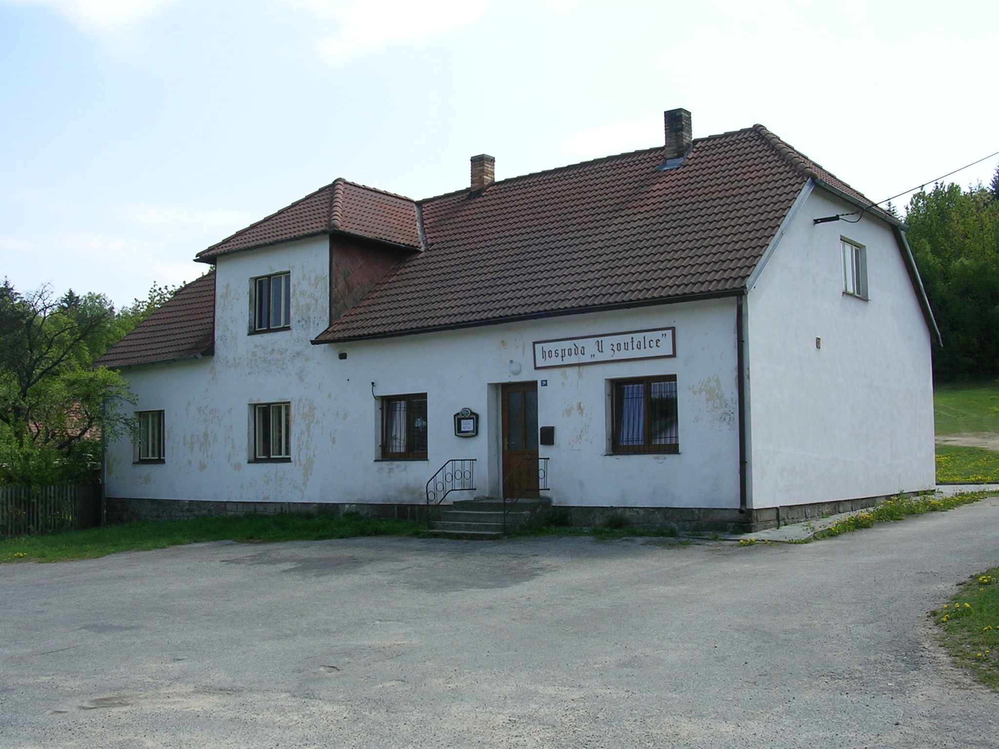 Volfířov-Radlice, South Bohemian Region, the Czech Republic.